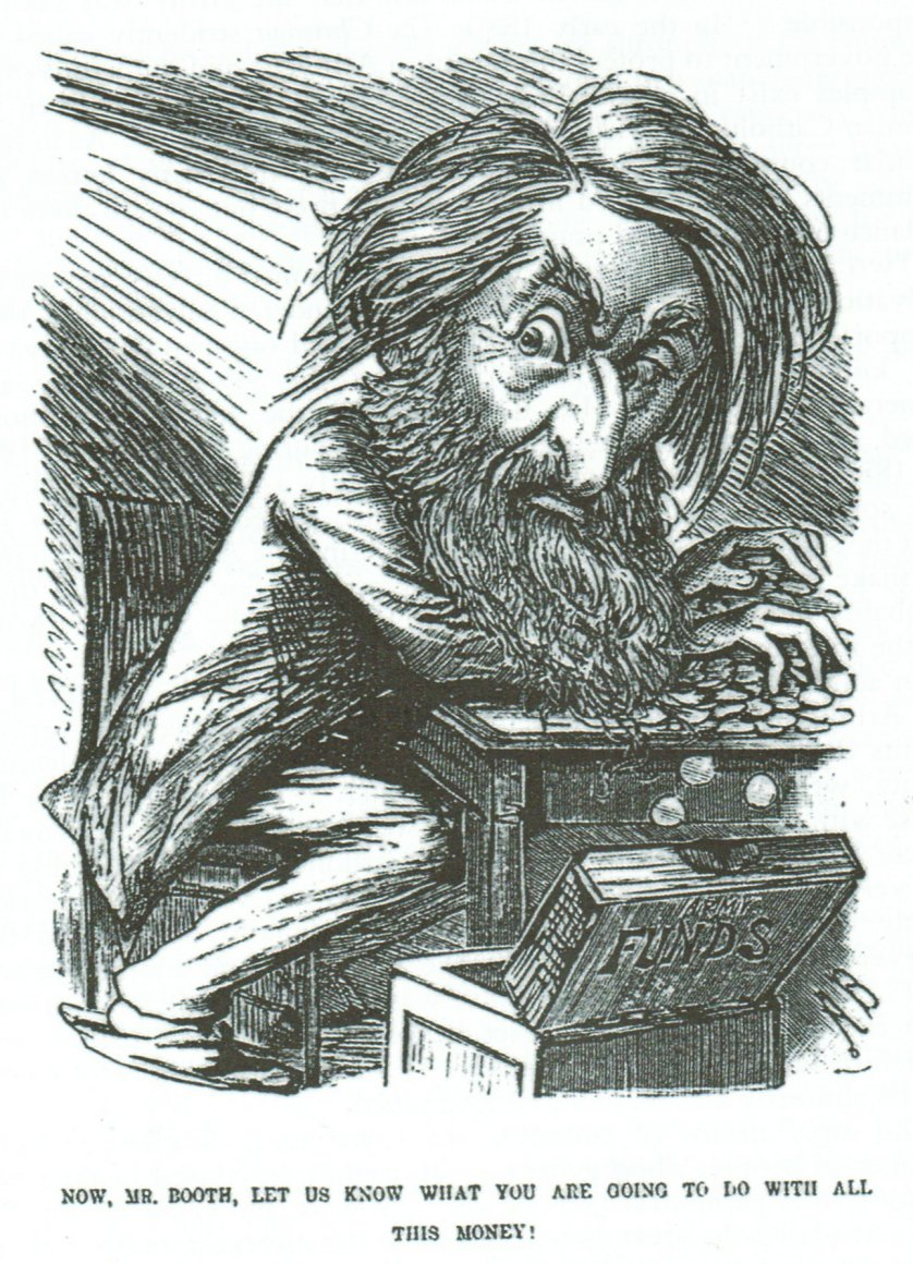 Magazine illustration of William Booth